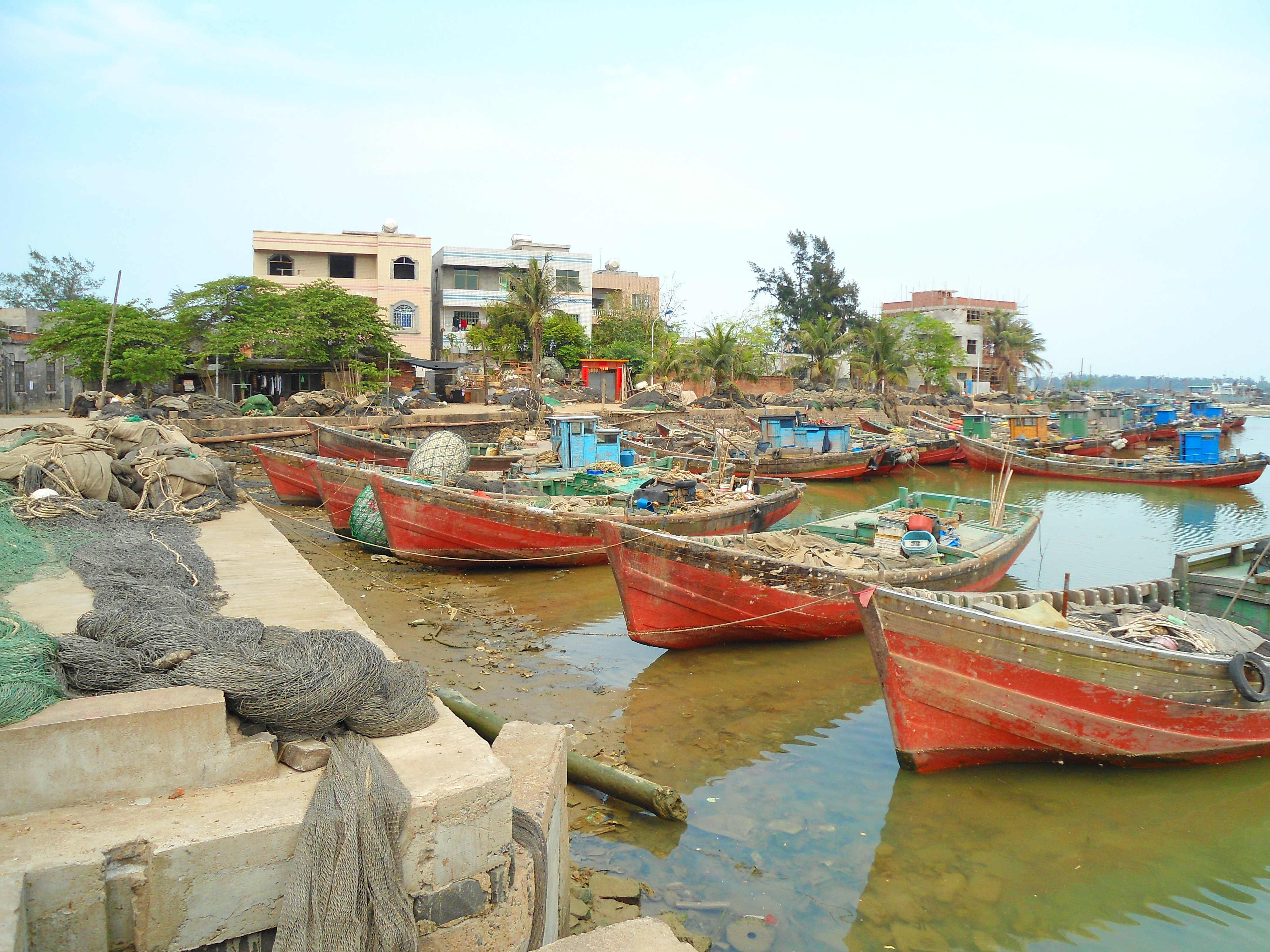 Xinbu Island, Hainan, China.